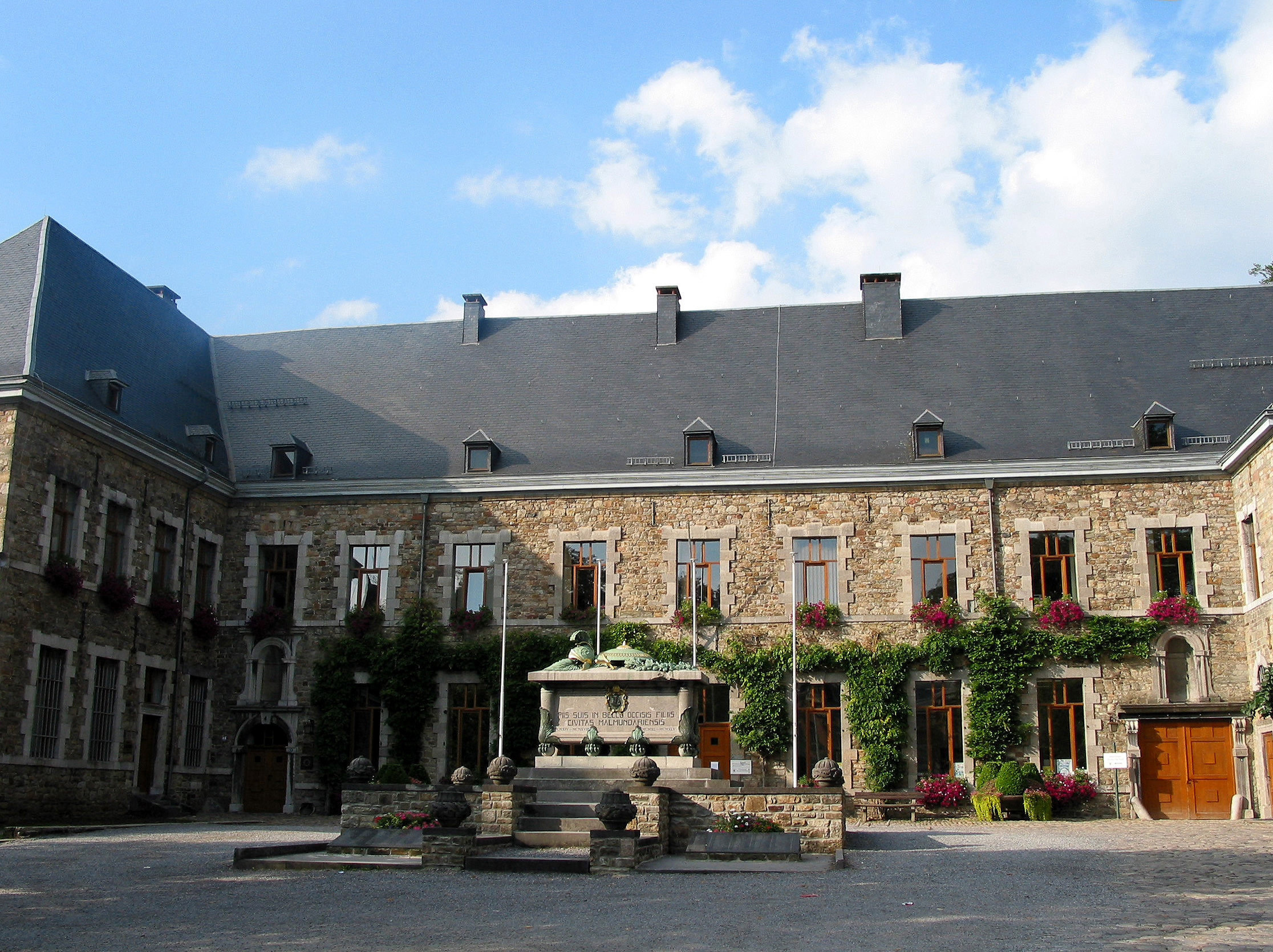 Malmedy (Belgium), buildings of the former monastery (XVIIIth century) and Memorial dedicated to the victims of the two world wars.